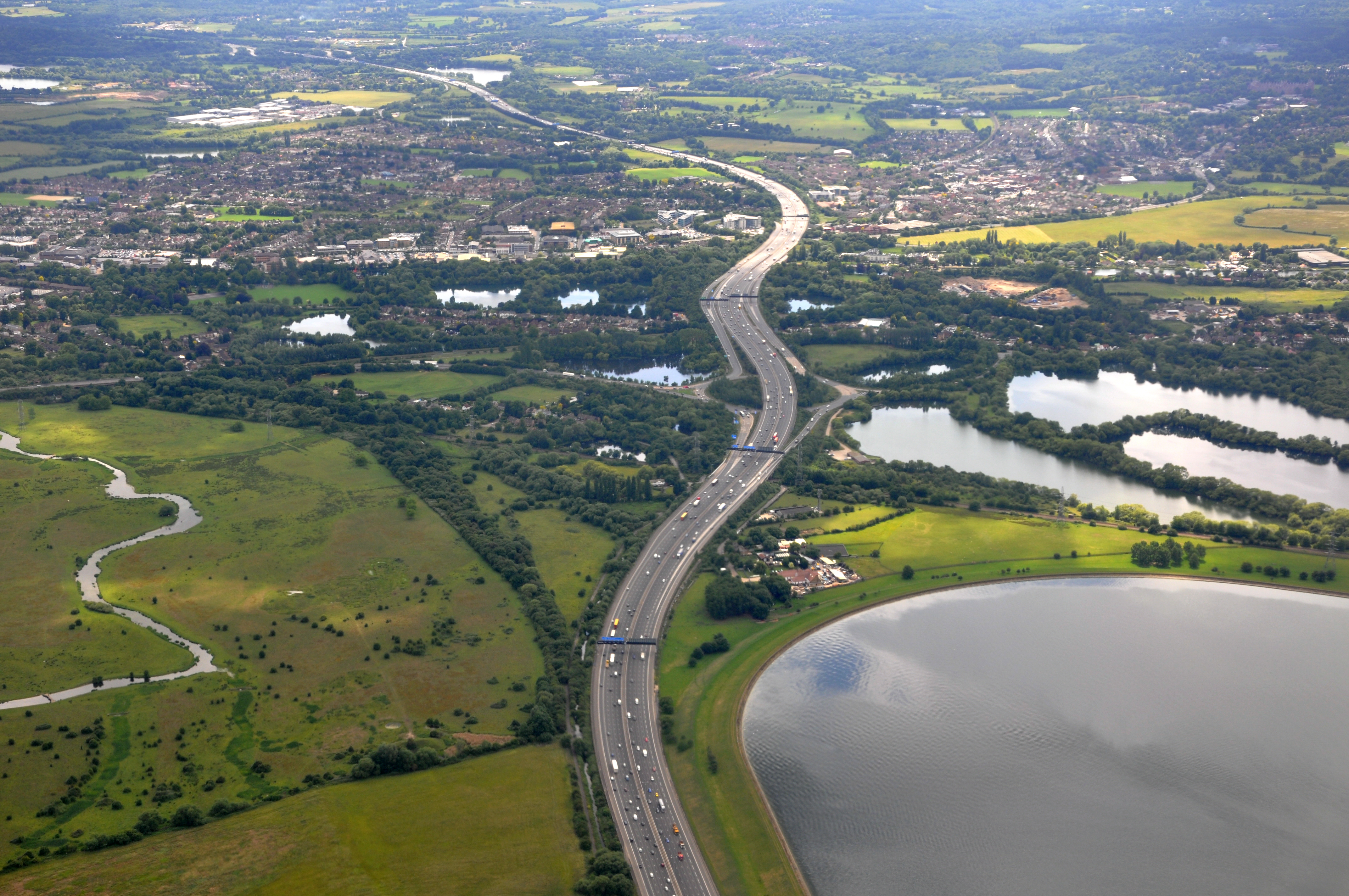 M25 motorway near Egham (in the foreground the Wraysbury Reservoir)